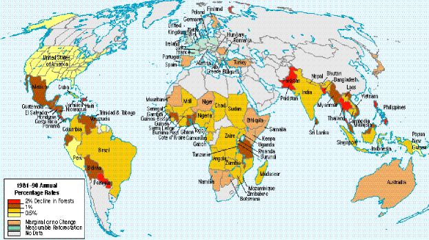 Disappearing Forests map as of 1994.